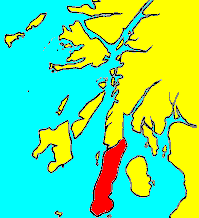 Small map of Kintyre, Scotland